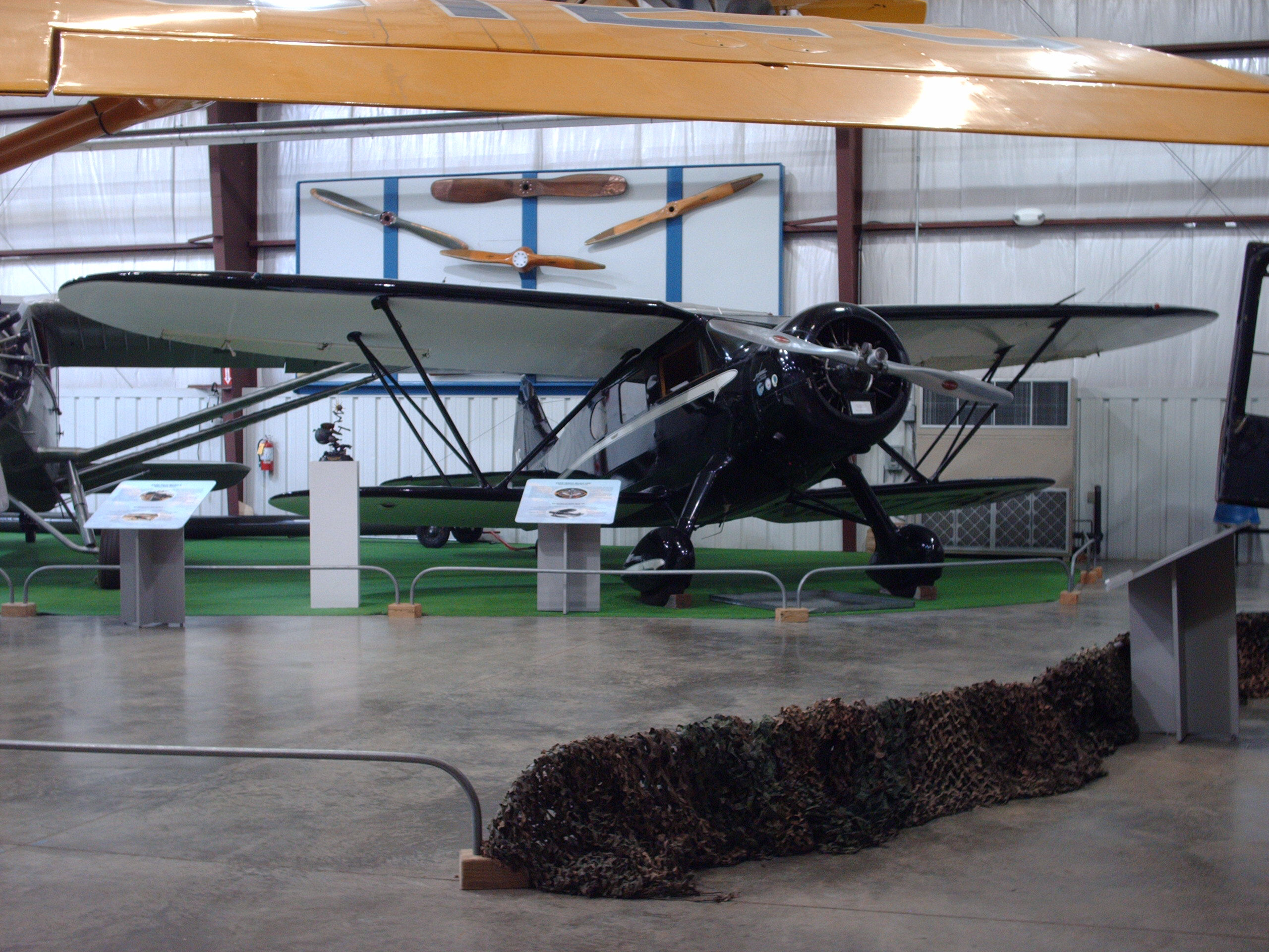 1935 Waco YOC Custom Cabin sesquiplane (NC17740) at the Virginia Aviation Museum, at the airport in Richmond, Virginia. This aircraft was once owned by Hollywood artist Walter Matthew Jeffries who designed the Starship Enterprise. As is typical with the Custom cabin sesquiplanes, the lower wing lacks ailerons (and the aileron linkage bar), and the lower wing is significantly smaller than the upper wing.